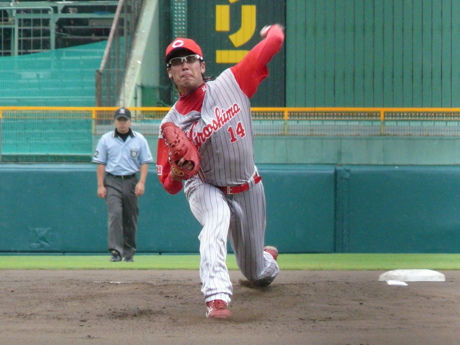 Copied from 画像:HC-Jyunpei-Shinoda.jpg: "篠田純平"